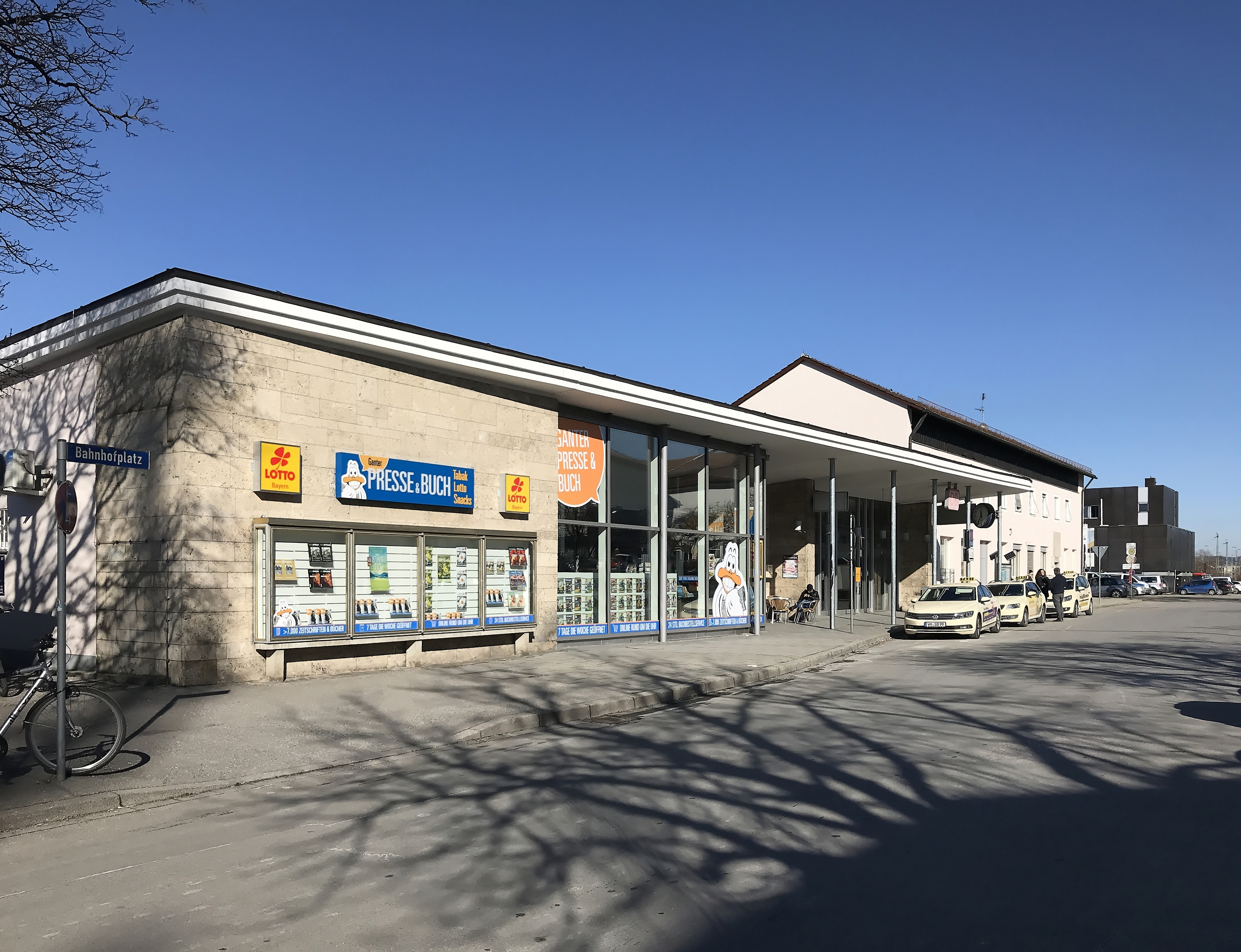 Railway station Weilheim (Upper Bavaria, Germany), February 2018